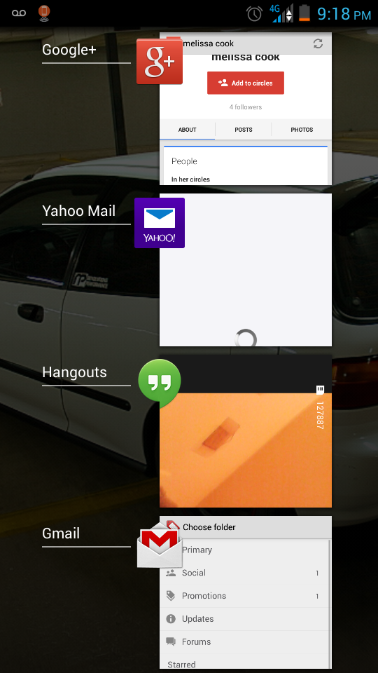 Screen shot of task menu